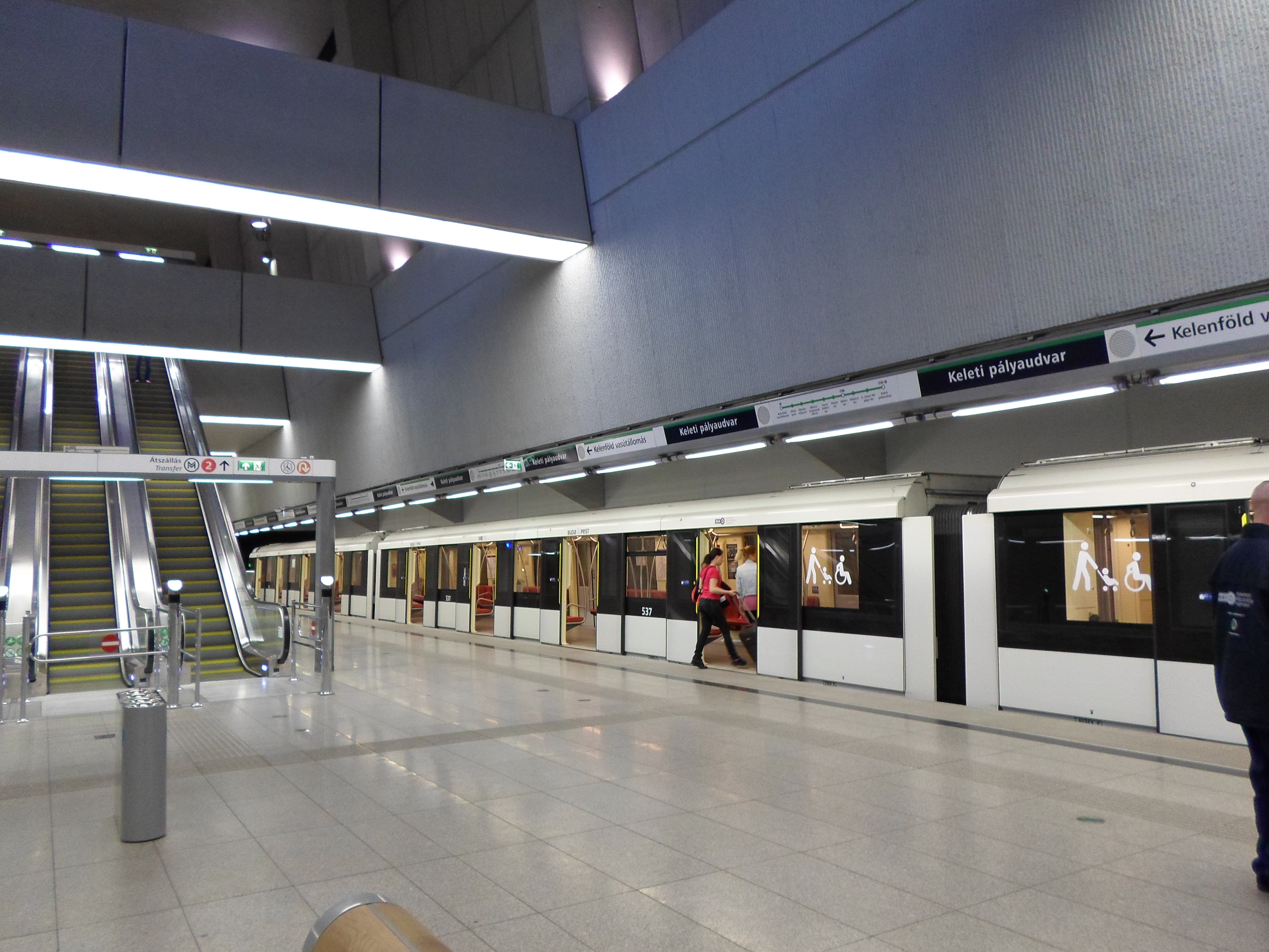 Line 4 (Budapest Metro) Eastern station.